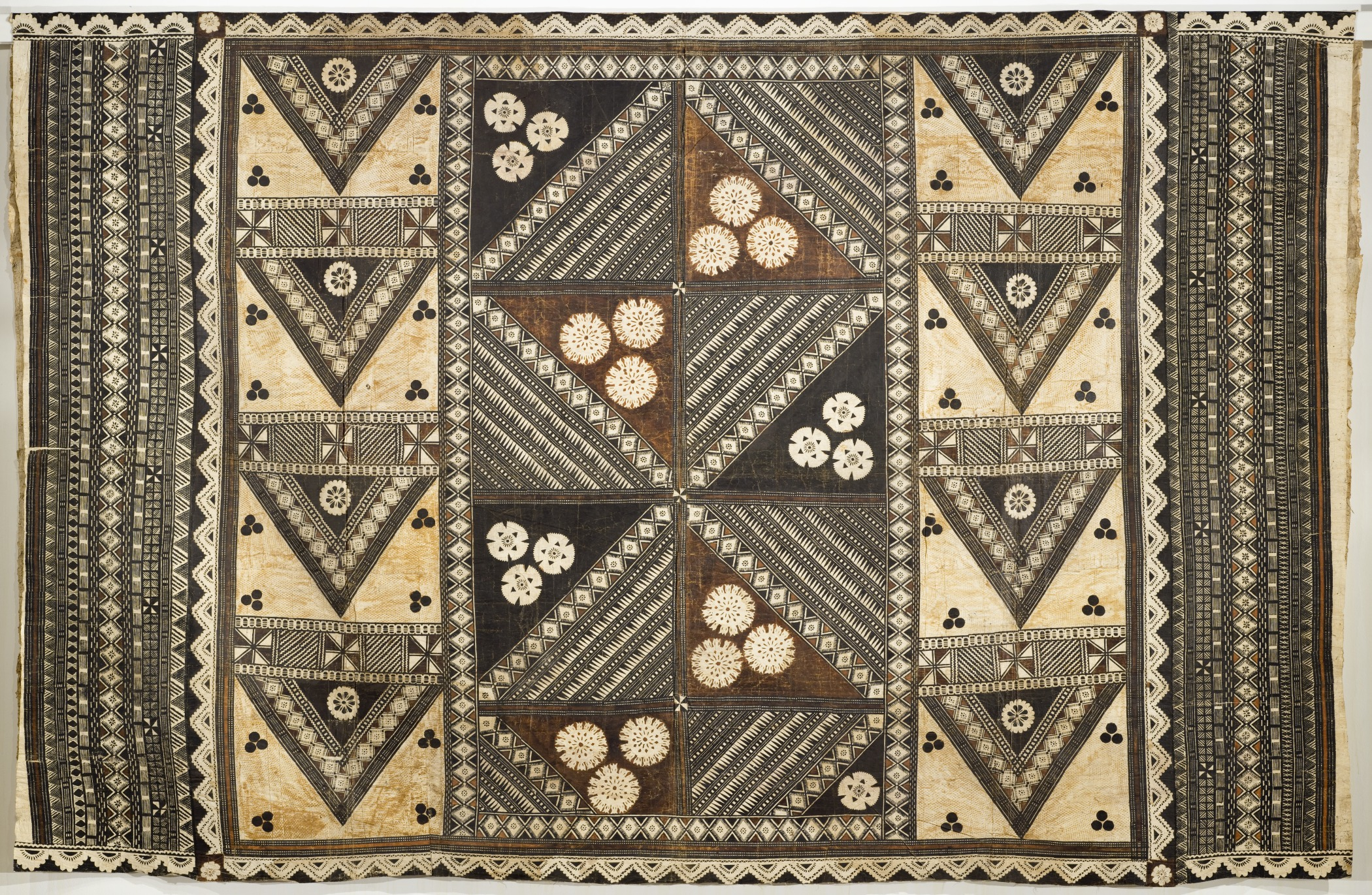 Republic of the Fiji Islands, 19th century Costumes; ceremonial or ritual dress Inner bark of the paper mulberry plant Gift of Patricia Manney and Eric Gruendemann (M.2010.160) Art of the Pacific